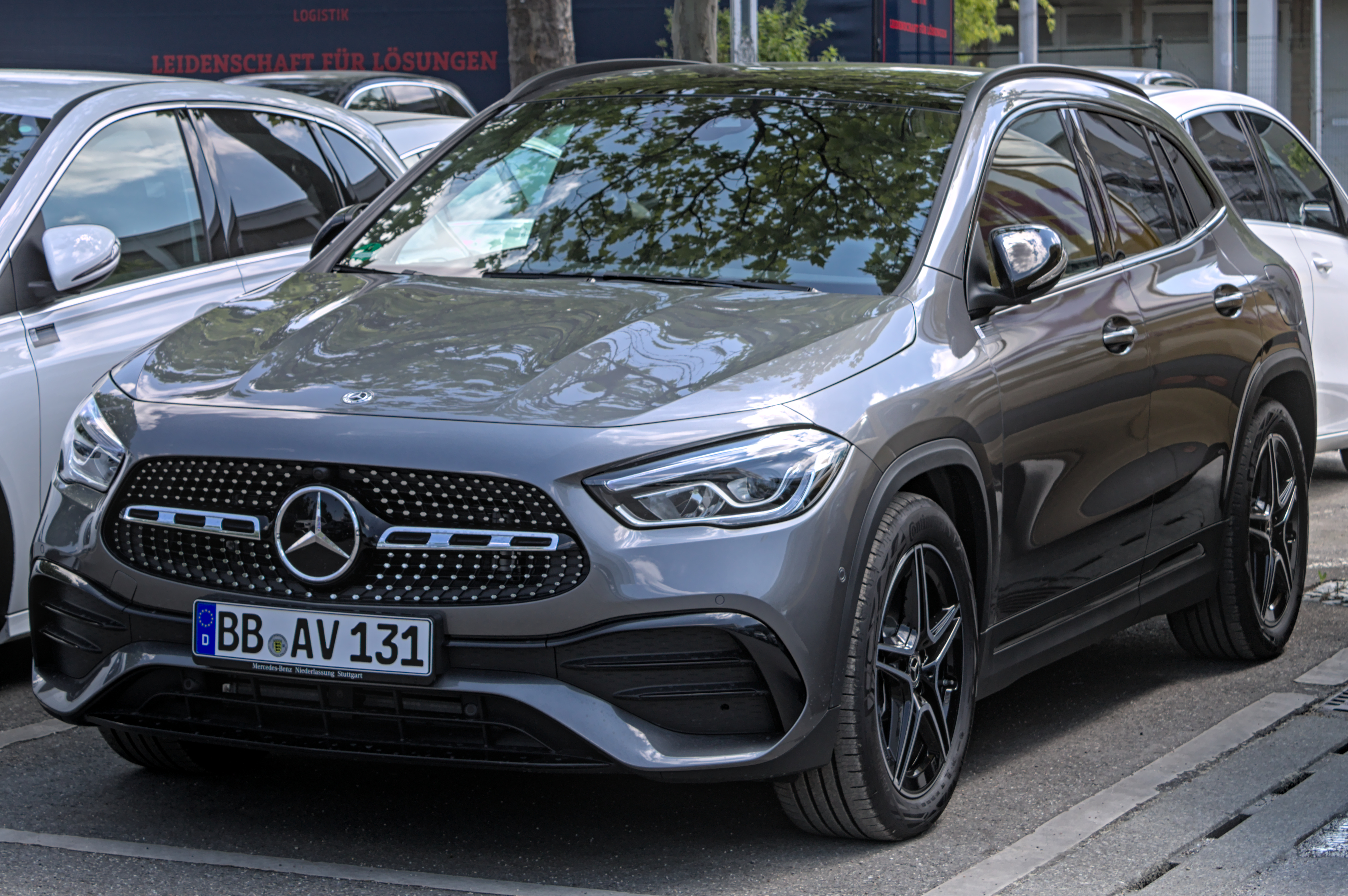 Mercedes-Benz_H247 in Böblingen